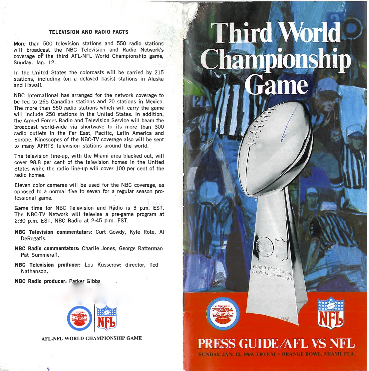 Front and back covers of the Super Bowl III press guide.